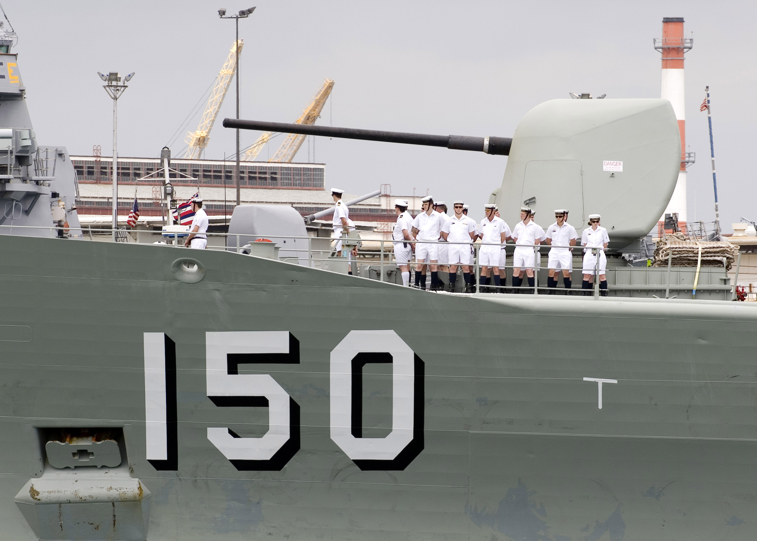 080627-N-6674H-123 PEARL HARBOR, Hawaii (June 27, 2008) Sailors man the rails aboard the Australian Navy ship HMAS Anzac (FF 150) as the ship arrives at Naval Station Pearl Harbor for this year's Rim of the Pacific (RIMPAC) 2008. RIMPAC is the world's largest multinational exercise and is scheduled biennially by the U.S. Pacific Fleet. Participants include the United States, Australia, Canada, Chile, Japan, the Netherlands, Peru, Republic of Korea, Singapore, and the United Kingdom.